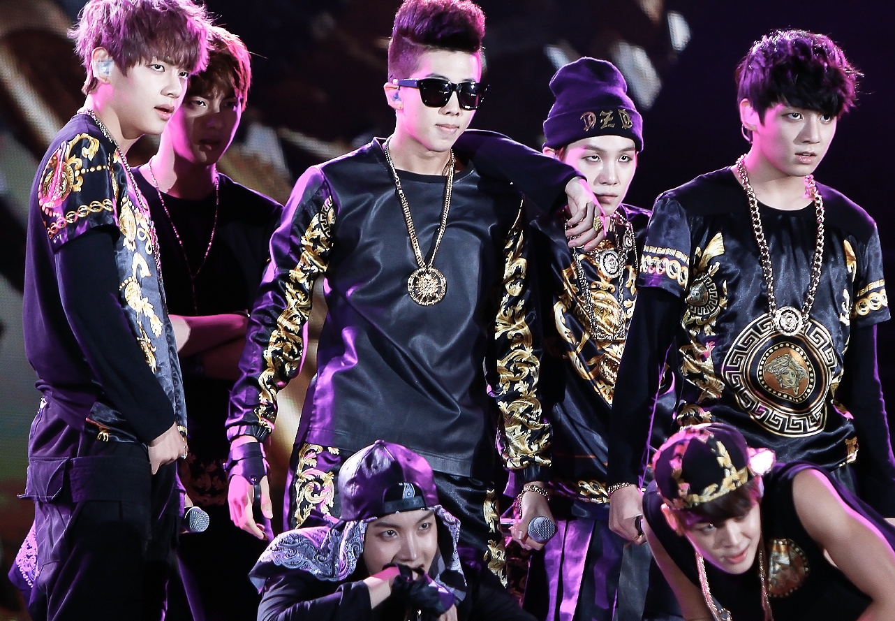 Bangtan Boys at Incheon Korean Music Wave September 1, 2013.